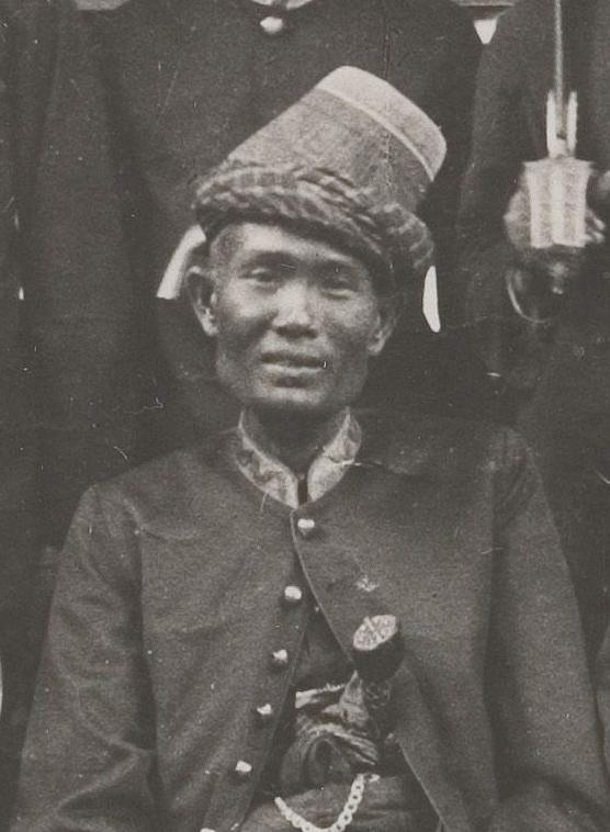 Portrait of Teuku Umar